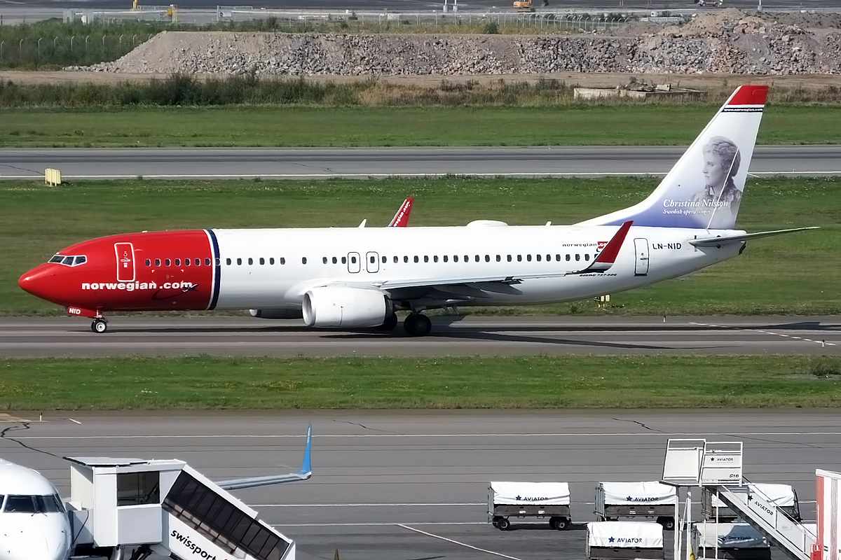 Norwegian (Christina Nilsson livery), LN-NID, Boeing 737-8JP